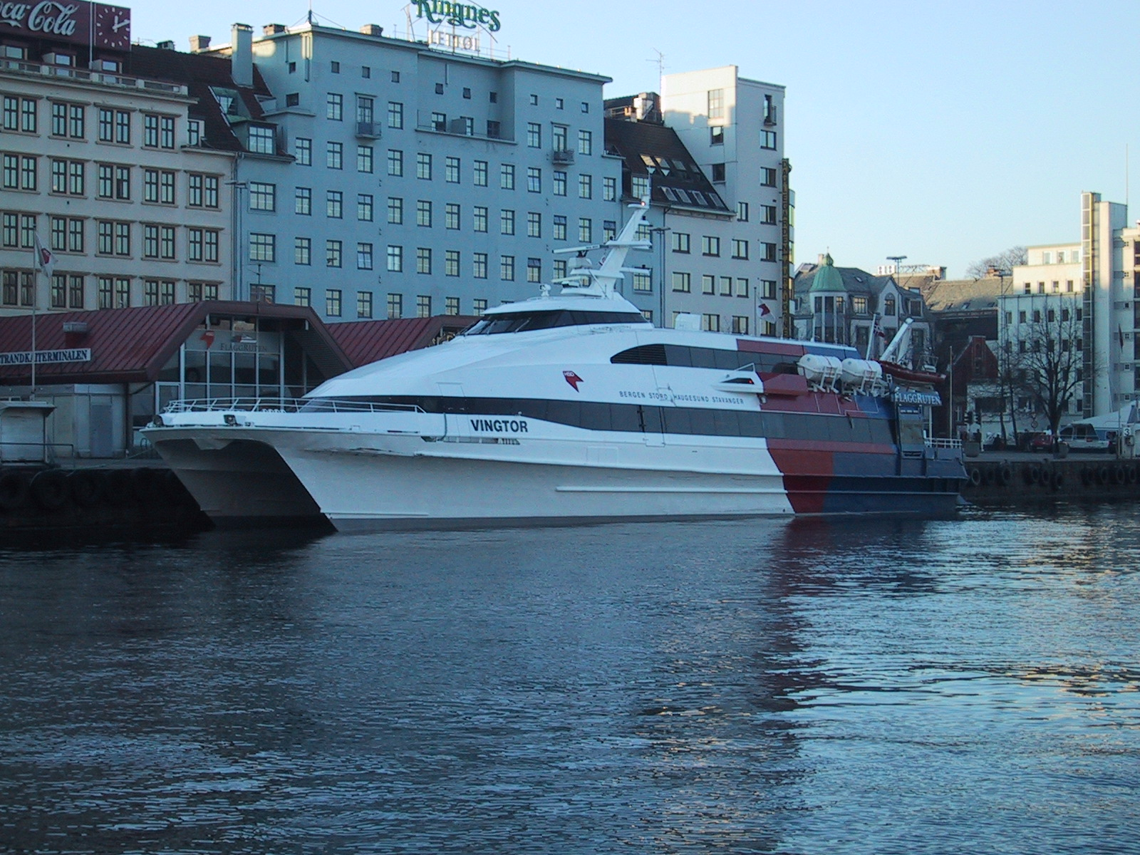 M/S Vingtor, built in 1990 as Pattaya Express for Jet Cat Tours Ltd., Bangkok, Thailand. Also known as Jet Cat.